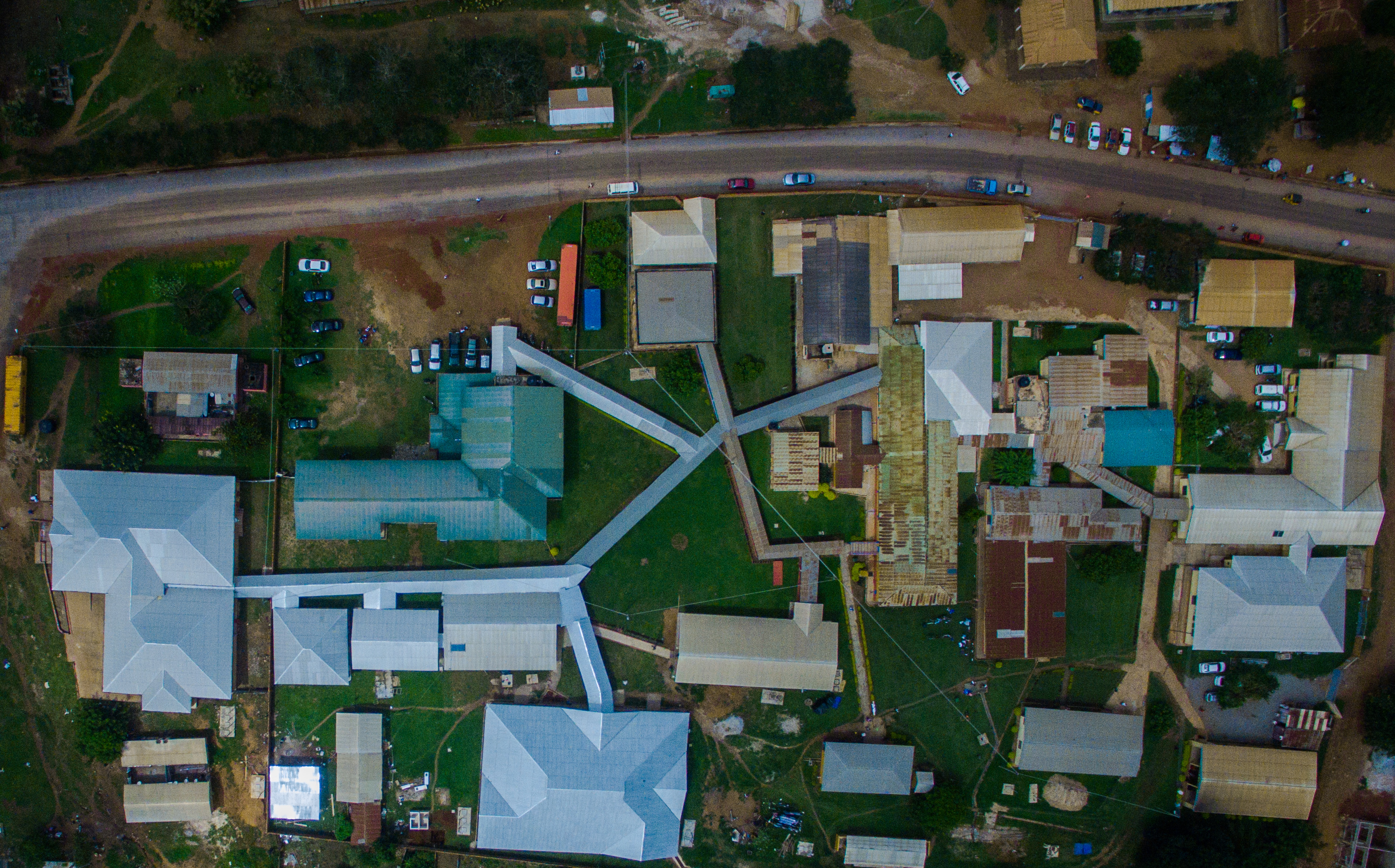 areal view of methodist hospital, wenchi